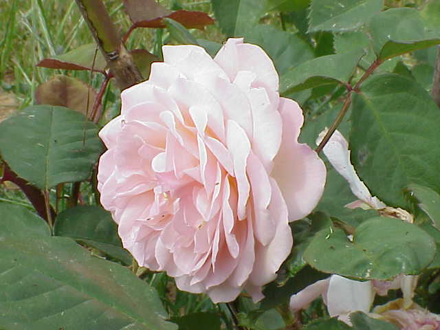 Species: Rosa sp. Family: Rosaceae Cultivar: Leander, Austin 1982 Image No. 169